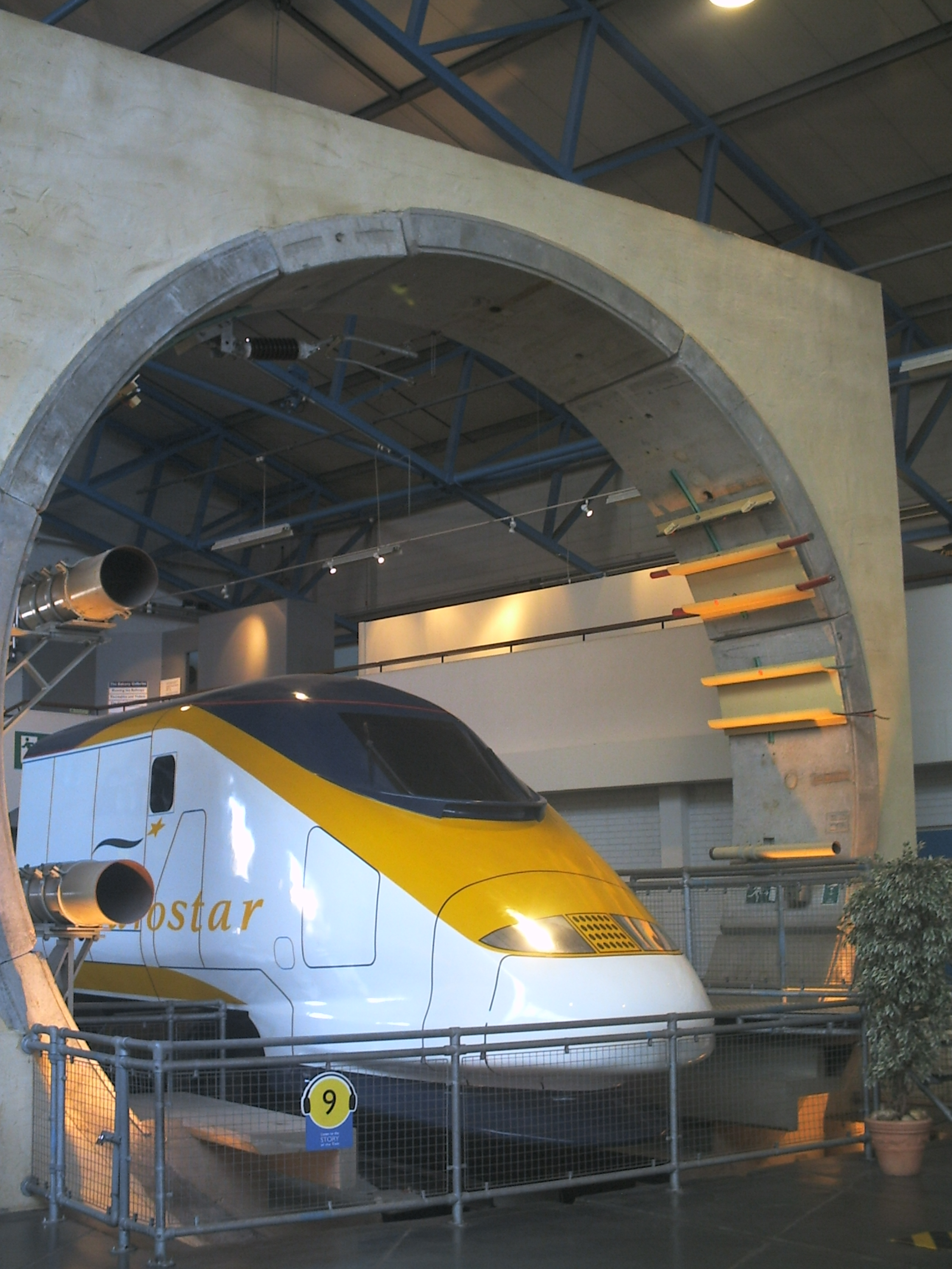 Source: xtrememachineuk